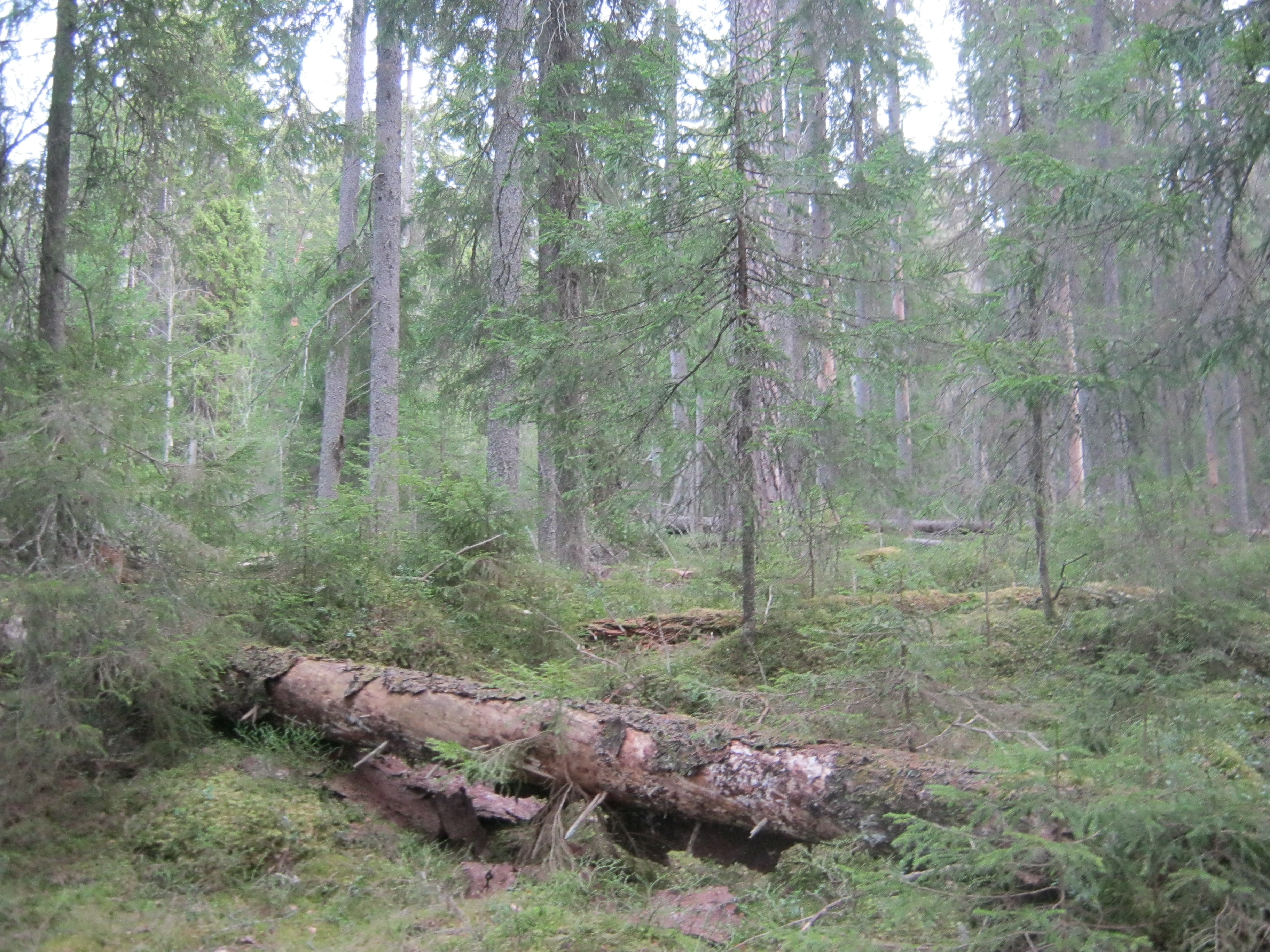 Woodland in the Kotinen Primeval Forest, Evo, Finland